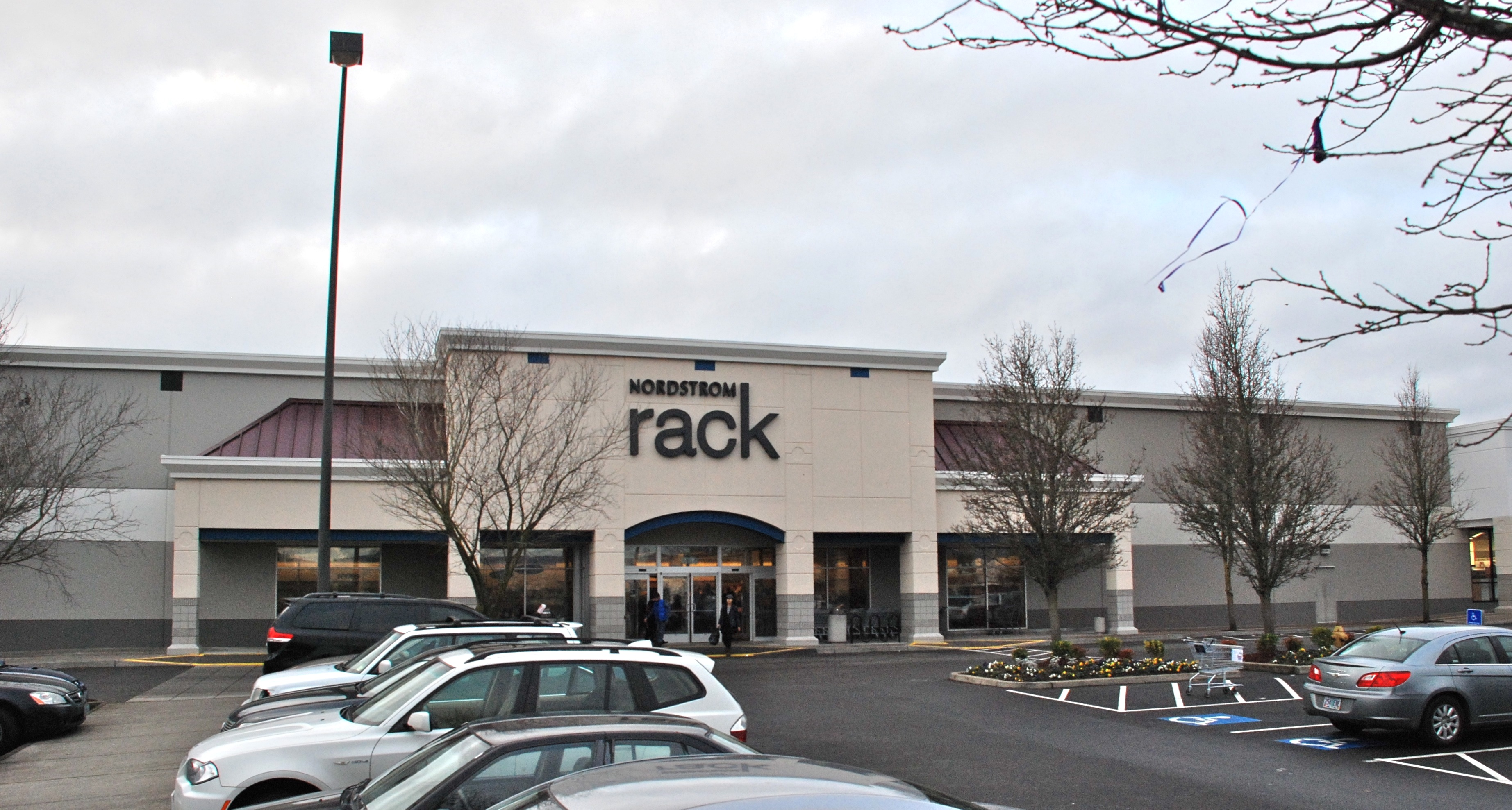 A Nordstrom Rack store in the Tanasbourne area of Hillsboro, Oregon.